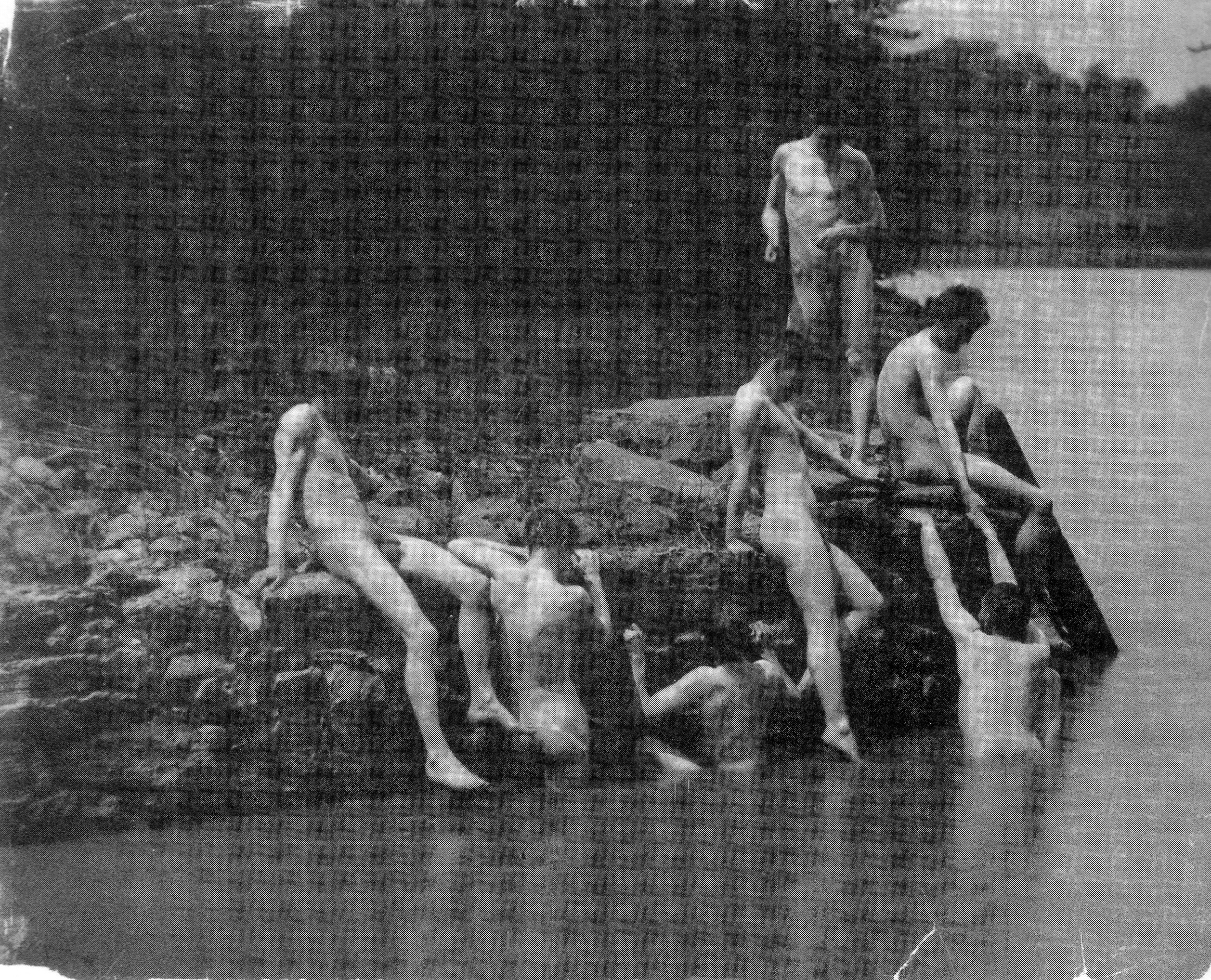 Thomas Eakins' circle of friends skinning dipping in Dove Lake, PA. Made in preparation for Eakin's The Swimming Hole.